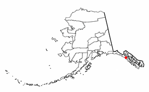 Adapted from Wikipedia's AK borough maps by Seth Ilys.